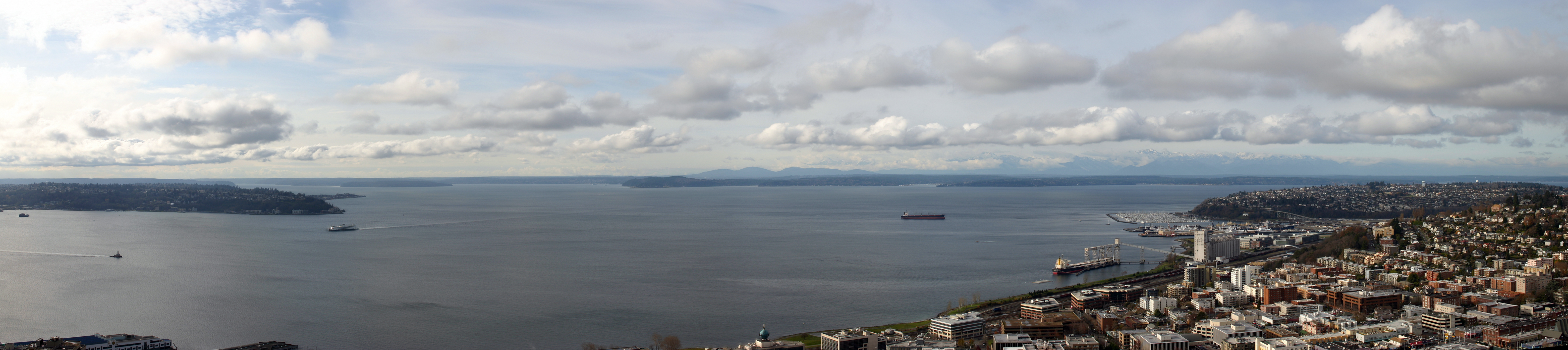 View of Puget Sound from the Seattle Space Needle. On the horizon, Gold Mountain in Kitsap County is near center of image, Olympic Mountains to the right.